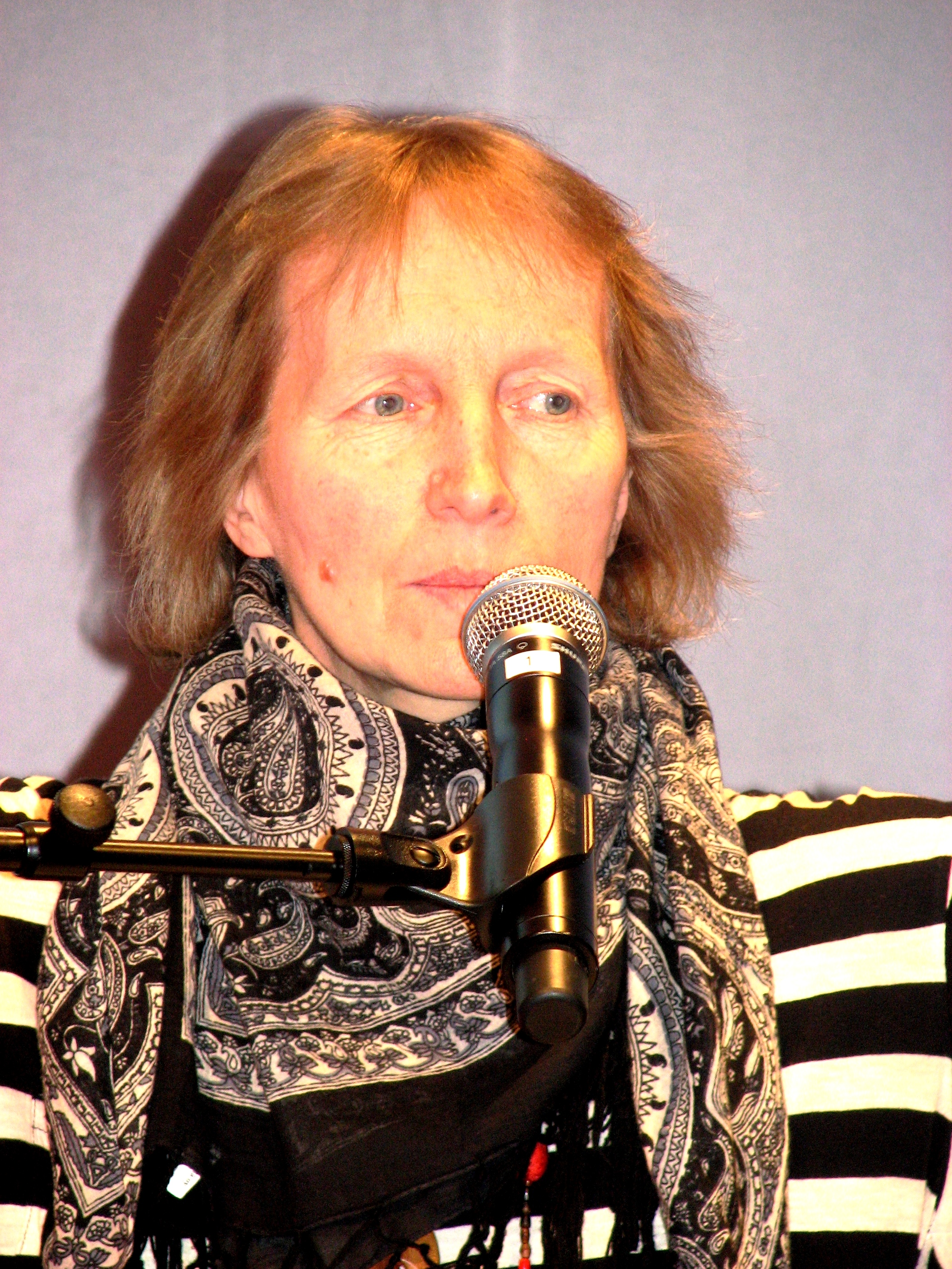 Mare Müürsepp performing in Baltic Book Fair 2010